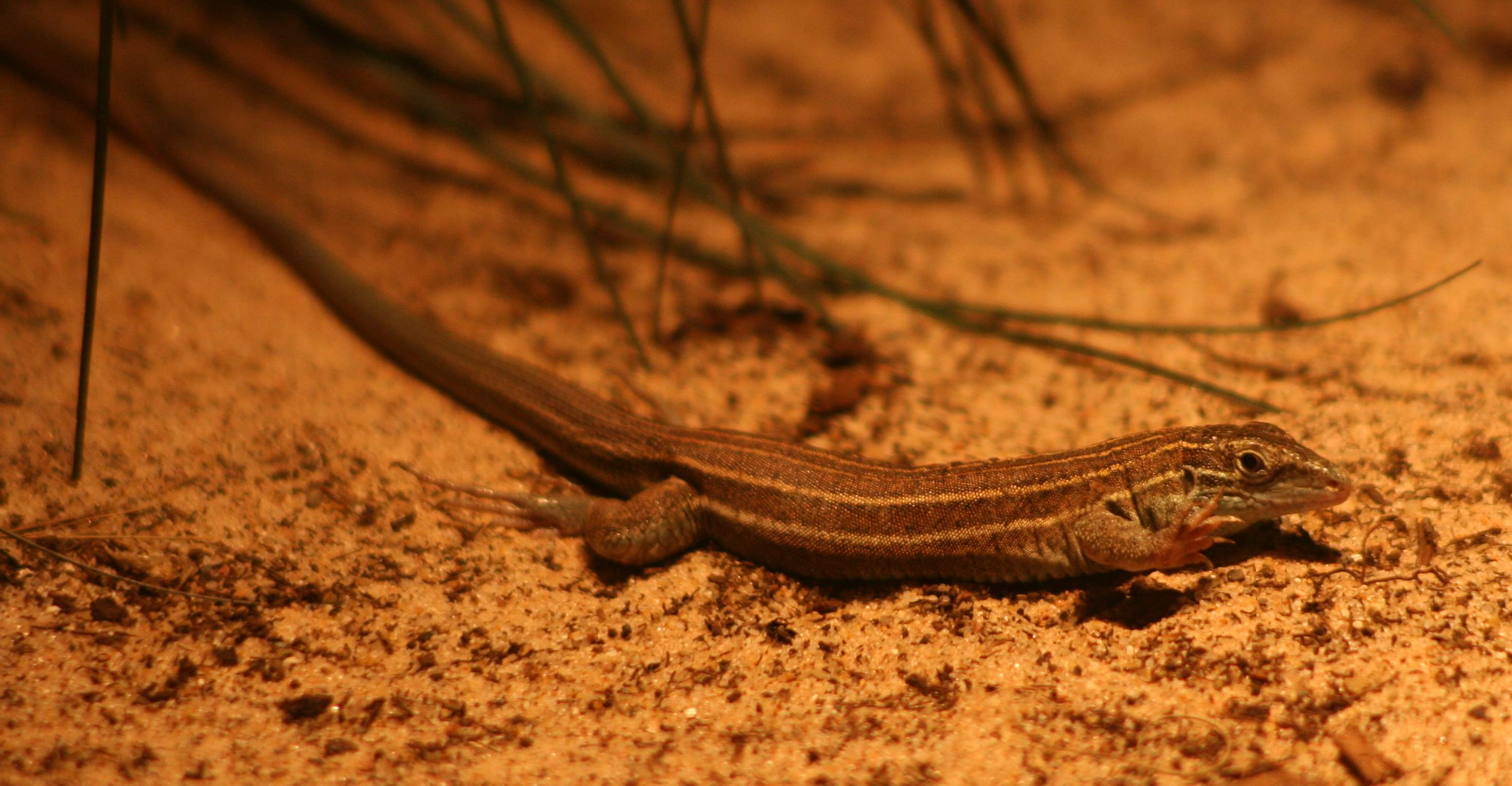 Desert Grassland Whiptail Lizard (Cnemidophorus uniparens), at the Buffalo Zoo